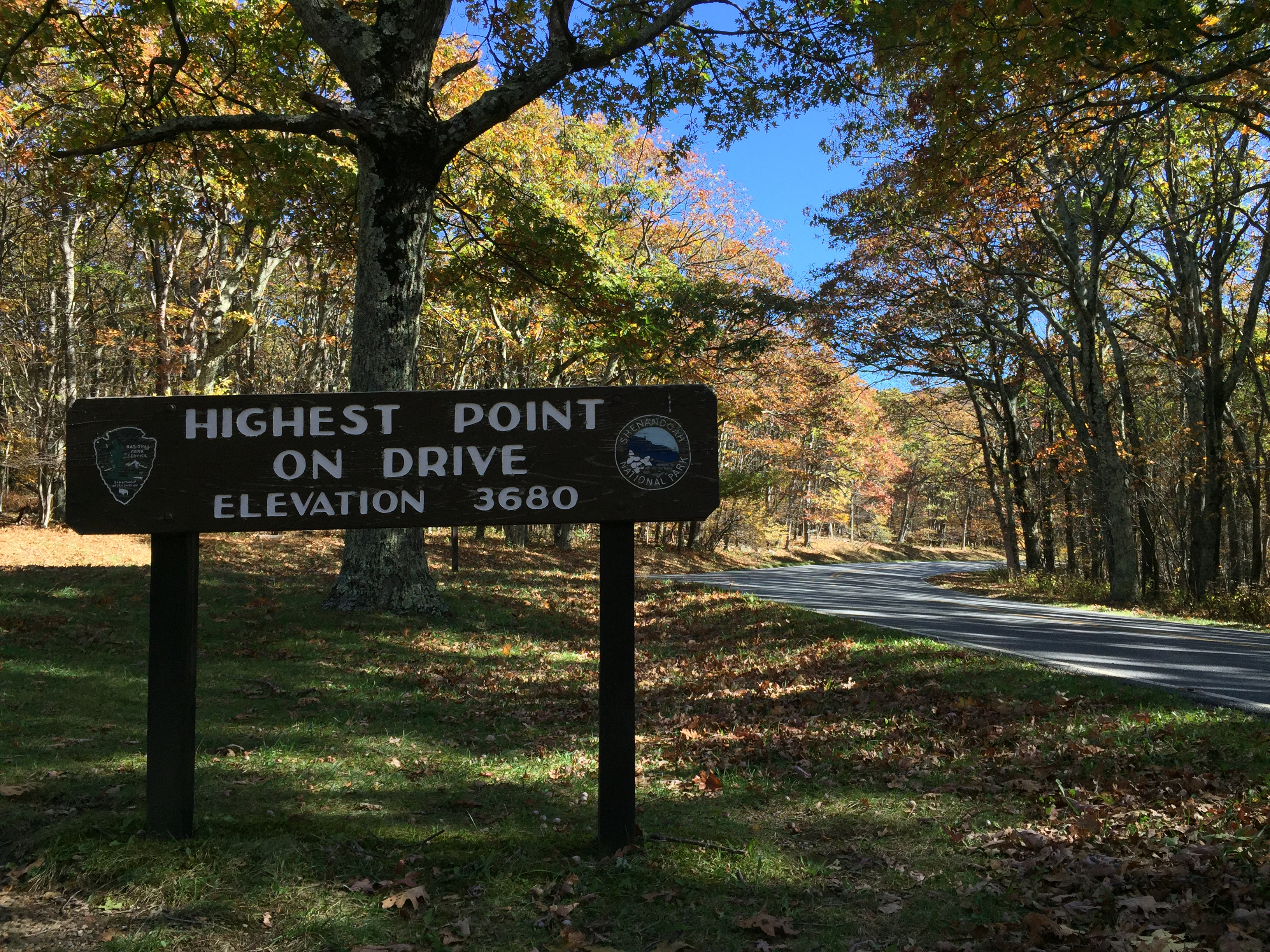 View north along Shenandoah National Park's Skyline Drive at the entrance to Skyland and the highest elevation along the road, in Madison County, Virginia